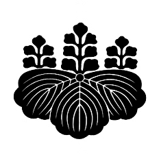 Japanese House Crest “Go-Shichi no Kiri”